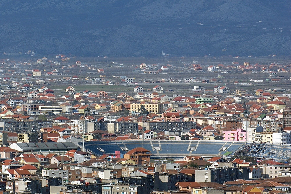 Loro Borici Stadium and Albanian Alps